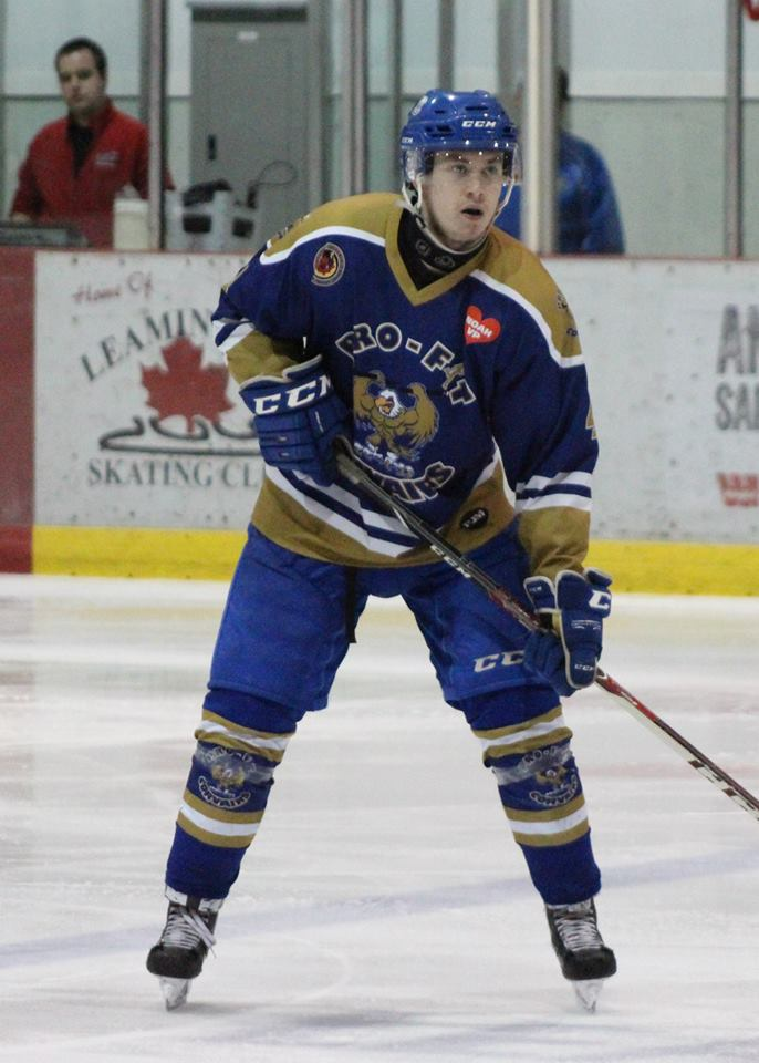 This photo was taken by Devan Mighton during the 2014-15 GOJHL season.